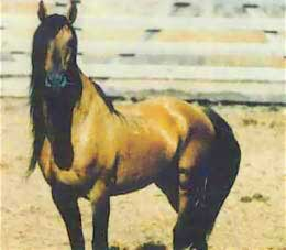 The Kriger stallion Mesteño in a file photo by the Bureau of Land Management